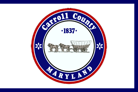 The official flag of Carroll County, Maryland, specified in 23 (3A-1.) 3-103 of the Carroll County code. The flag consists of the county seal on a blank, opaque field, having a border on three sides of blue.